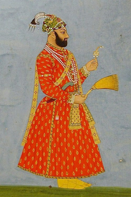 Farrukhsiyar of India.